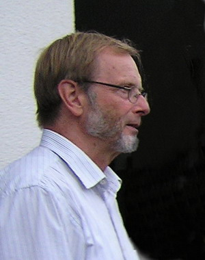 Peter Findeisen